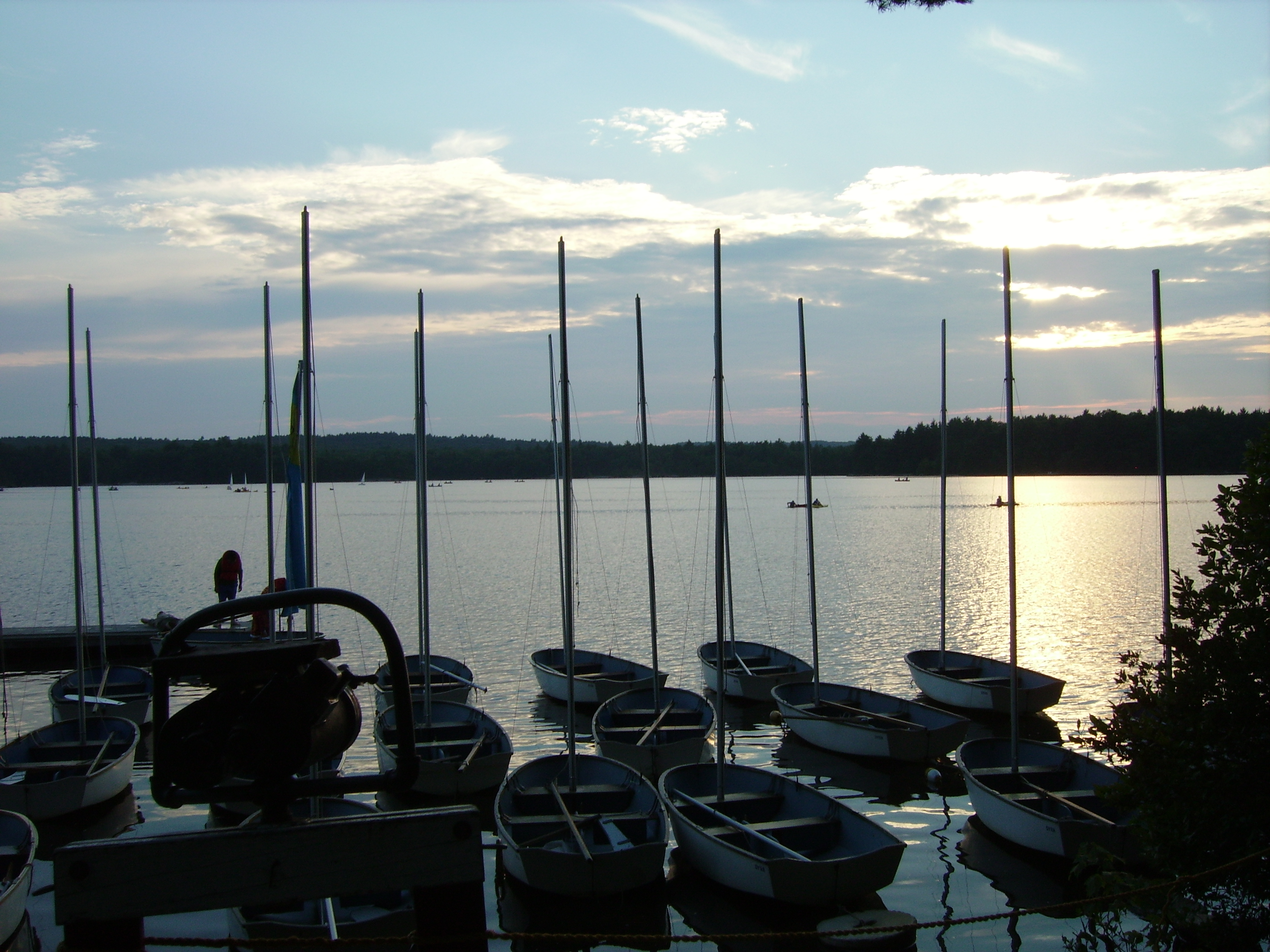 Ashaway Aquatics center (aka: Yawgoog Yacht club or YYC) at Camp Yawgoog